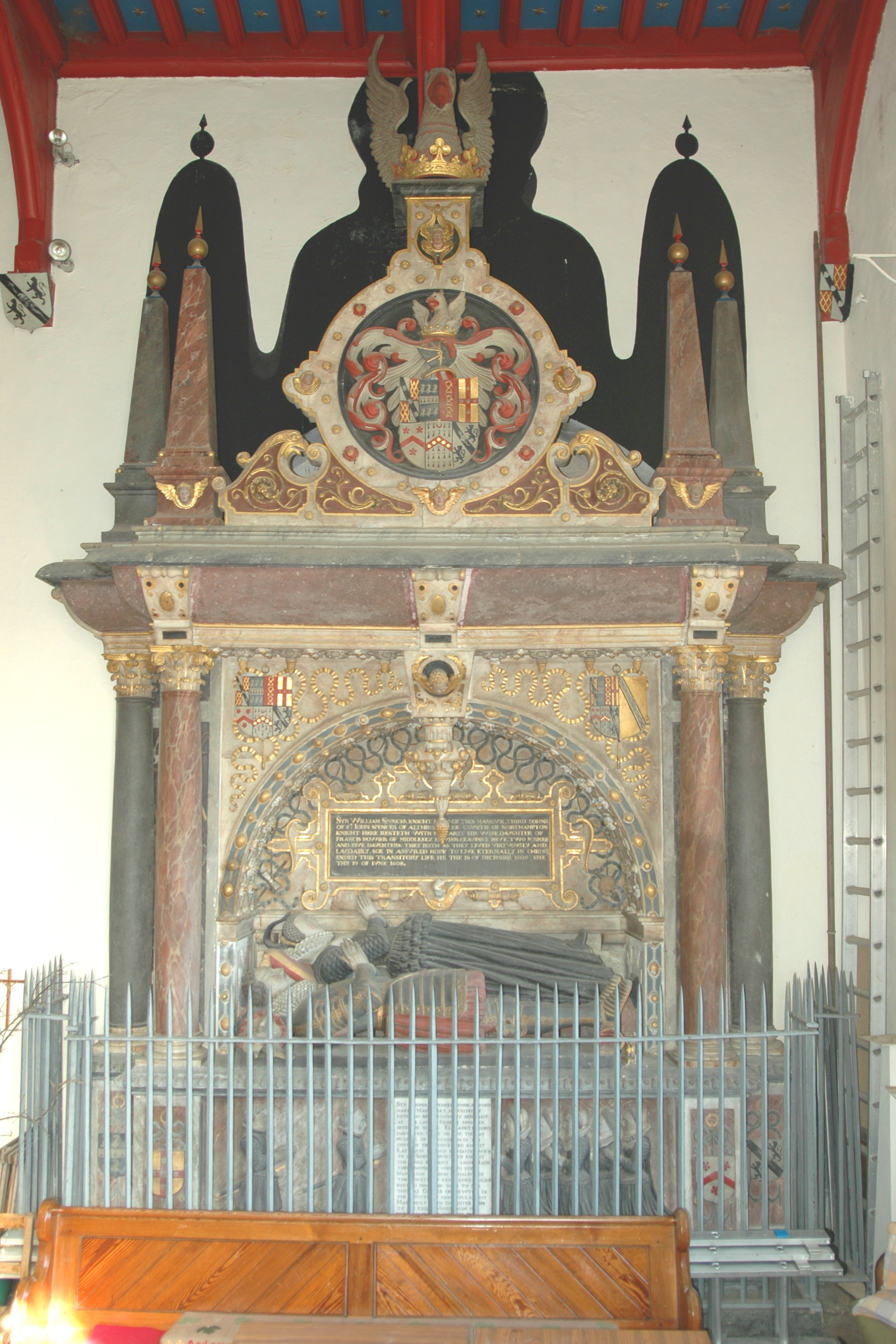 Memorial to Sir William Spencer (died 1609) in Spencer Chapel at the Church of England parish church of St. Bartholomew, Yarnton, Oxfordshire